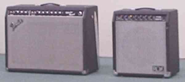 A Fender Vibralux twin, and a Ross 40w, both with 12" loudspeakers.